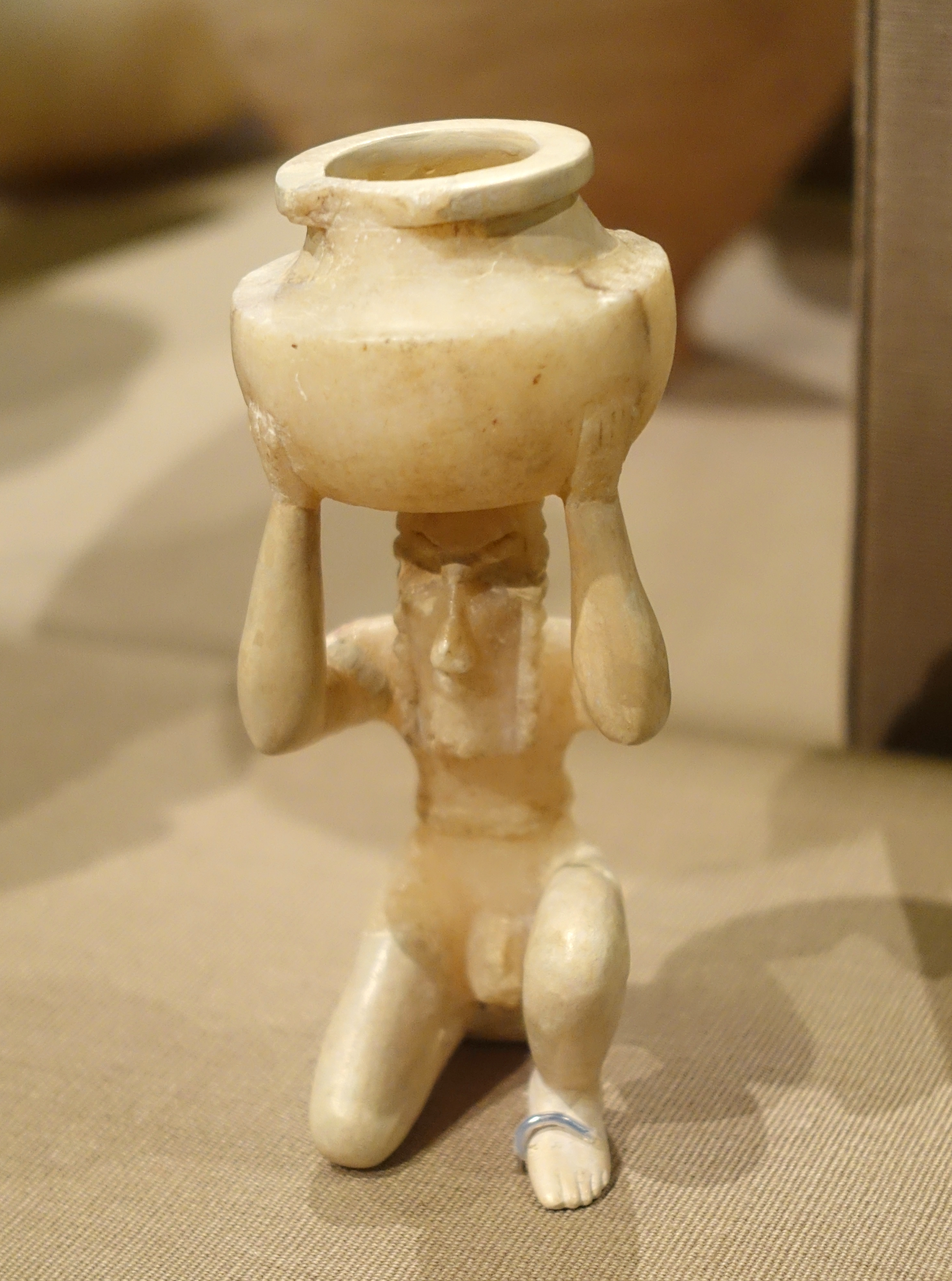 Exhibit in the Oriental Institute Museum, University of Chicago, Chicago, Illinois, USA. This work is old enough so that it is in the public domain.